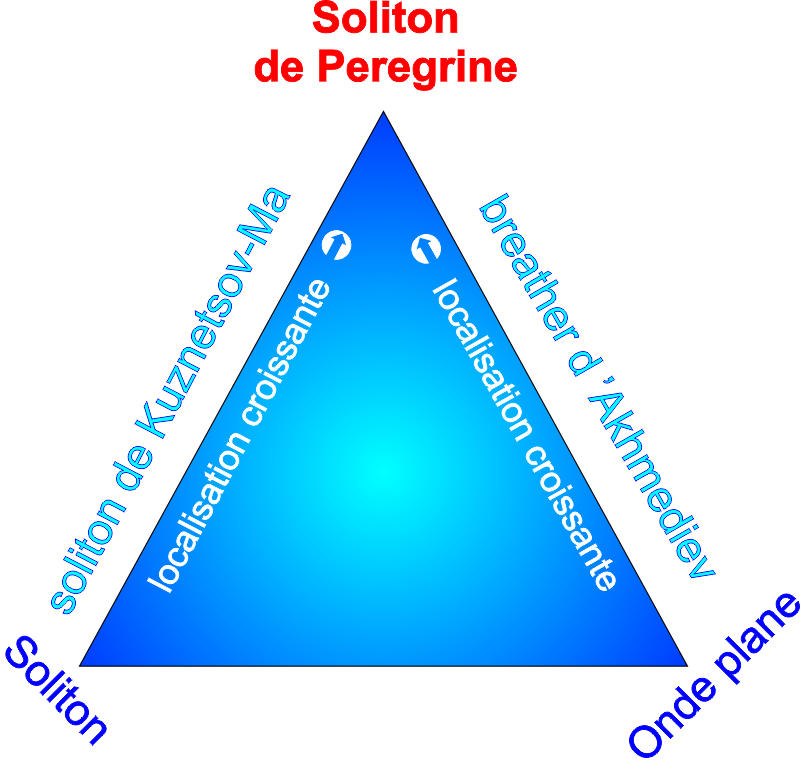 Peregrine soliton and other nonlinear solutions